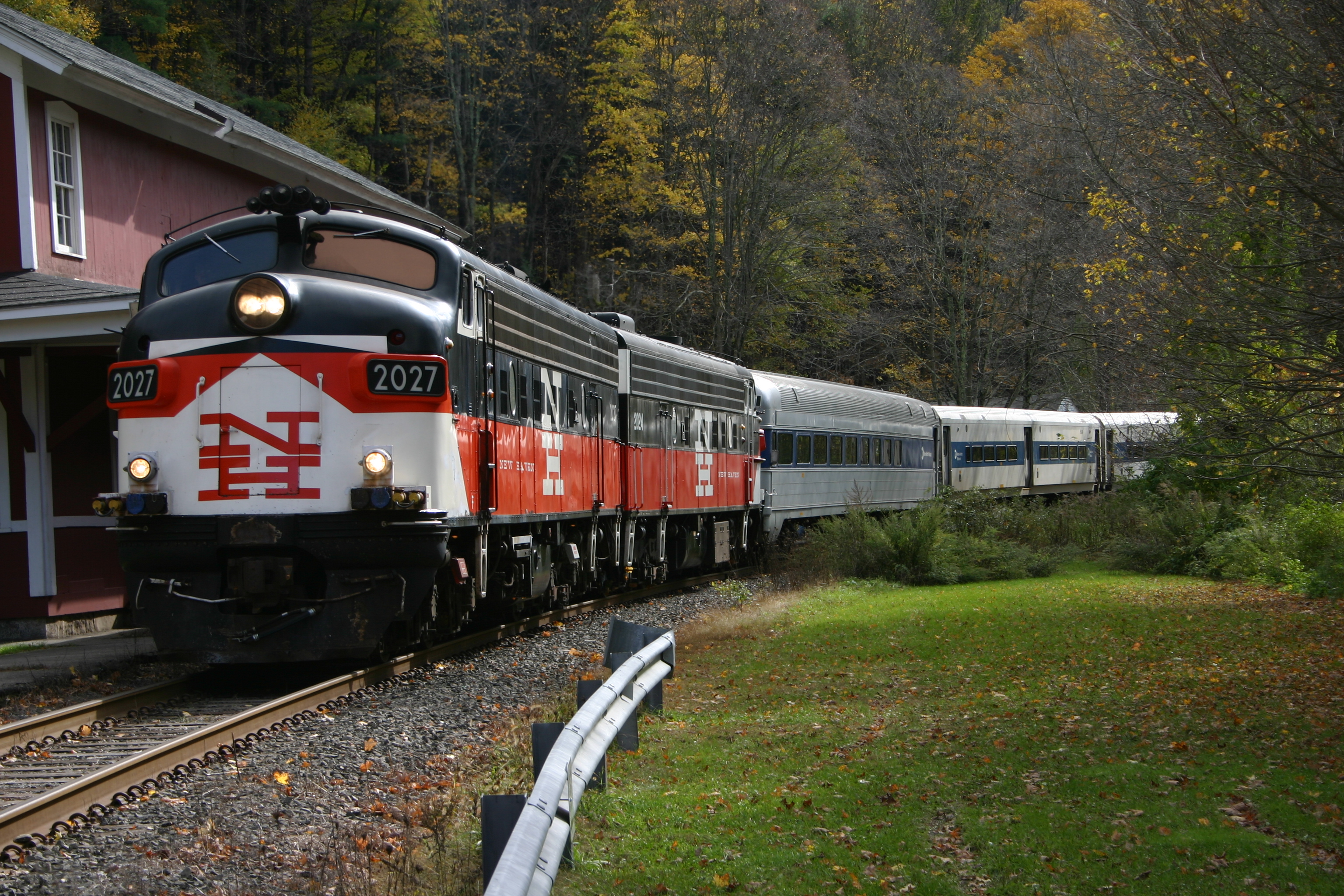 A Metro-North FL9 leads the "Farewell to the FL9" excursion into West Cornwall, CT.